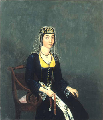 Portrait of Melikishvili. A. Ovnatanian. Mid-XIX c. The Georgian Museum of Fine Arts